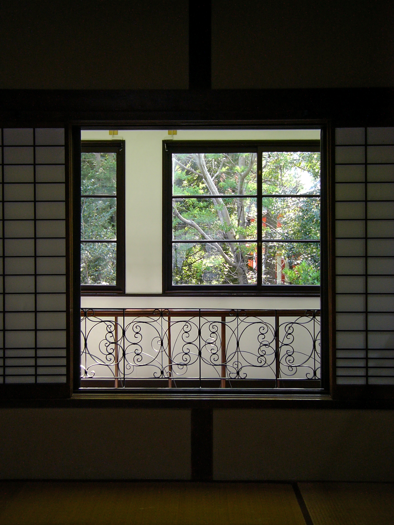 Sato Haruo Memorial Museum, Shingu, Wakayama prefecture, Japan